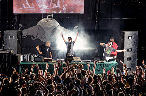 Glitch Mob Live